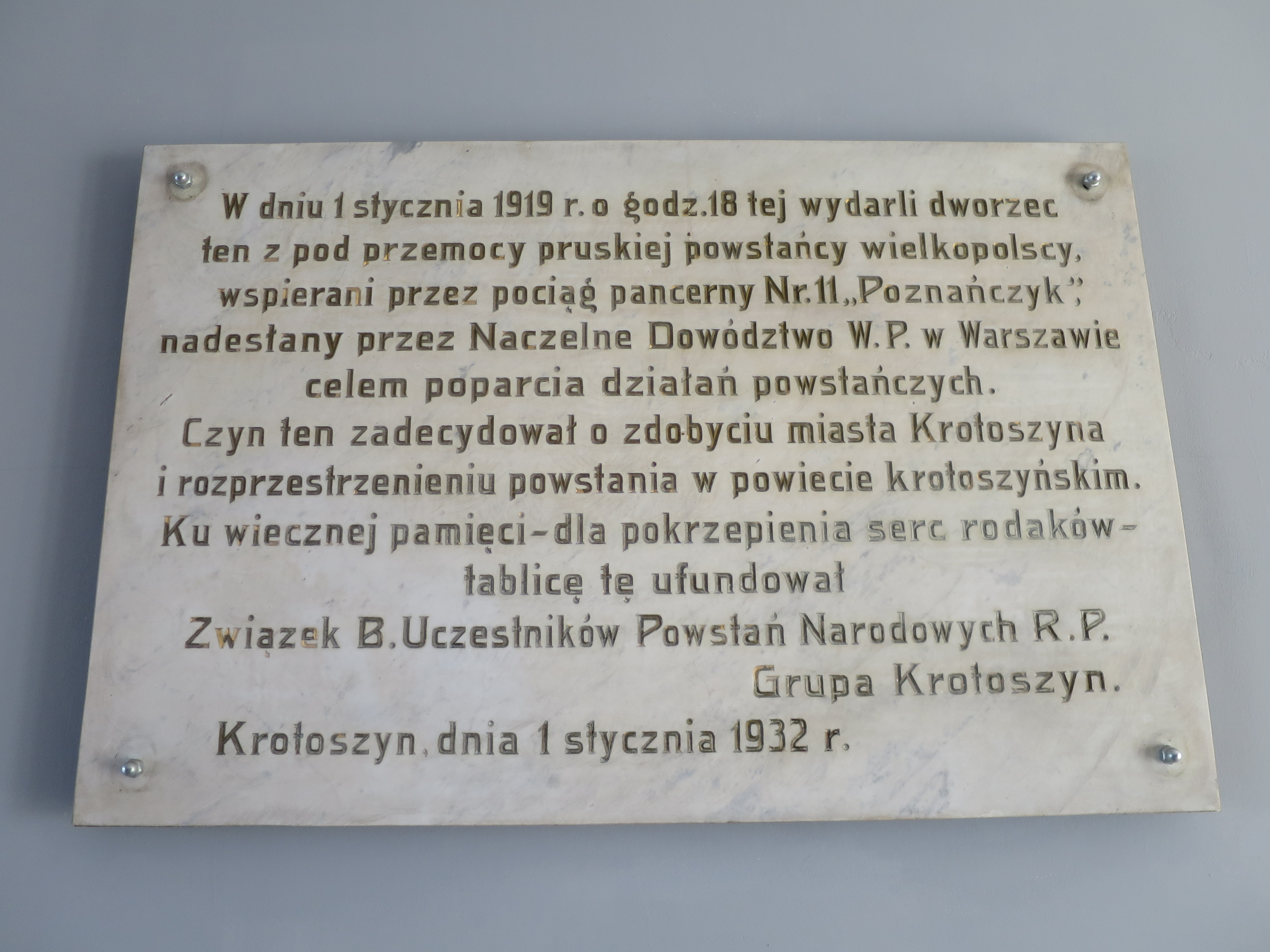 Krotoszyn This photo was taken during Railway Wikiexpedition 2015 set up by Wikimedia Polska Association in cooperation with Fundacja Grupy PKP.You can see all photographs in category Wikiekspedycja kolejowa 2015.